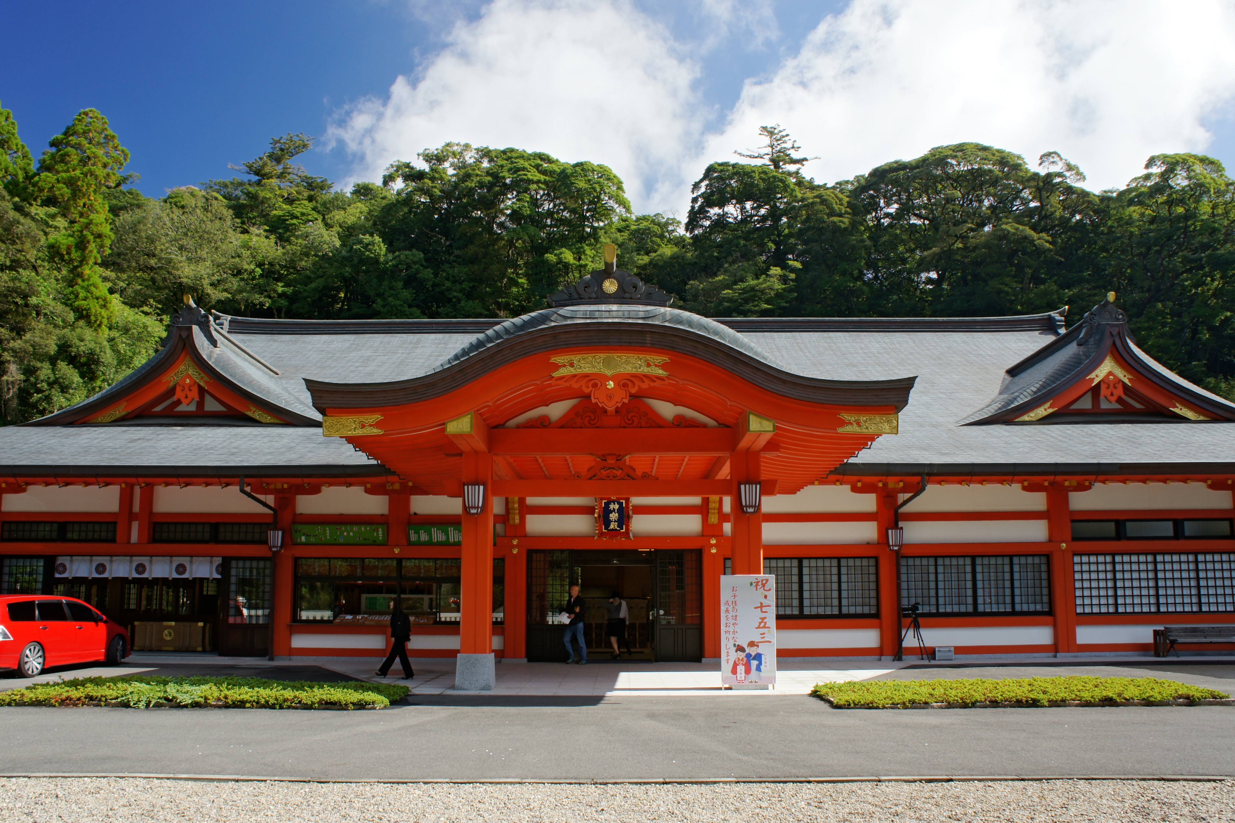 Kirishima-jingu in Kirishima, Kagoshima prefecture, Japan.